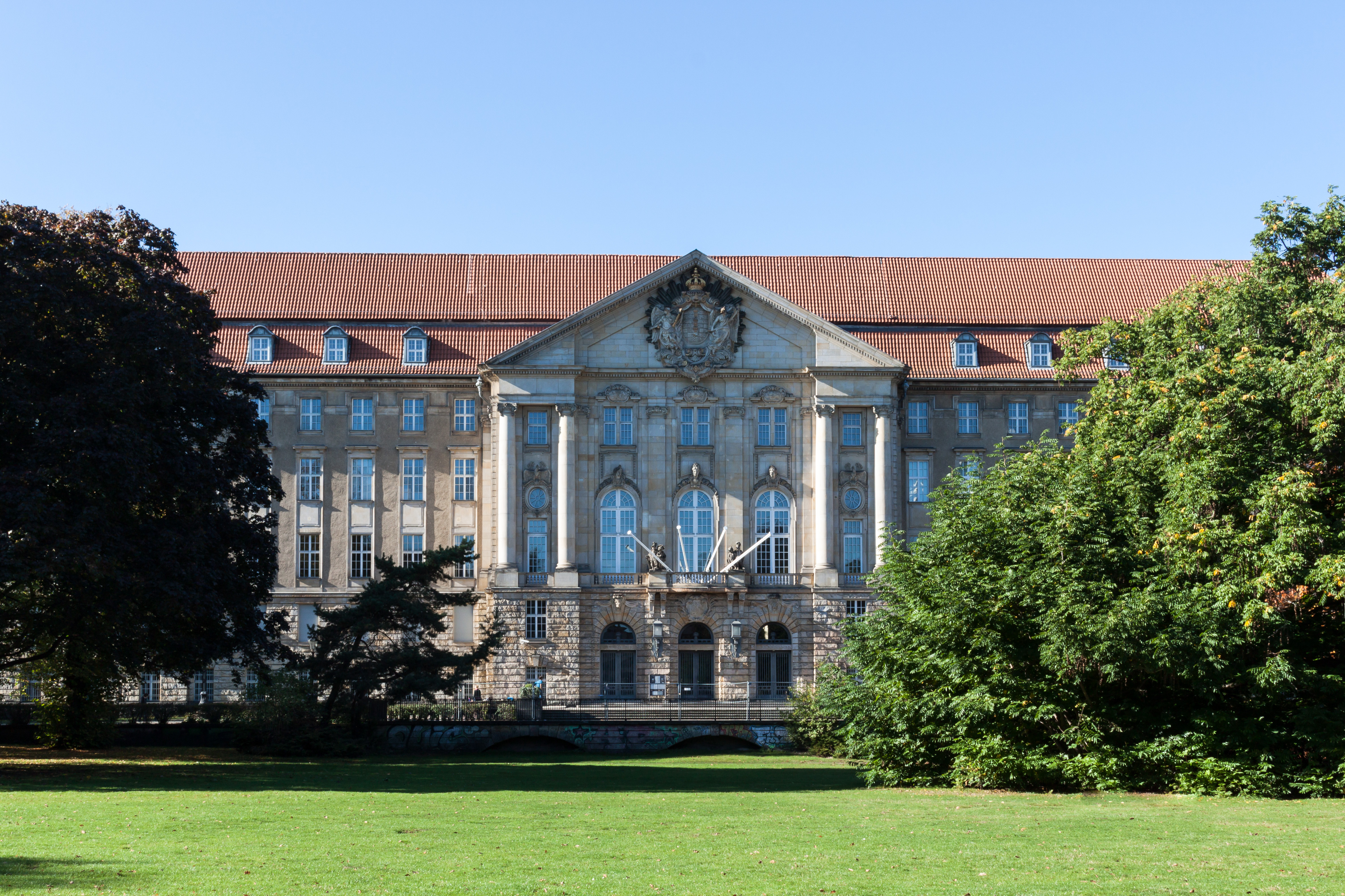 The Kammergericht Berlin (Higher Regional Court of Berlin). It's located in the Heinrich-von-Kleist-Park in Berlin-Schöneberg.